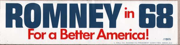 Bumper sticker used during George W. Romney's campaign for the Republican U.S. presidential nomination in 1968. (Small print at bottom appears to read "L HALL Ch. ROMNEY for PRESIDENT COMMITTEE WASH D C", a reference to informal campaign manager Leonard Hall)